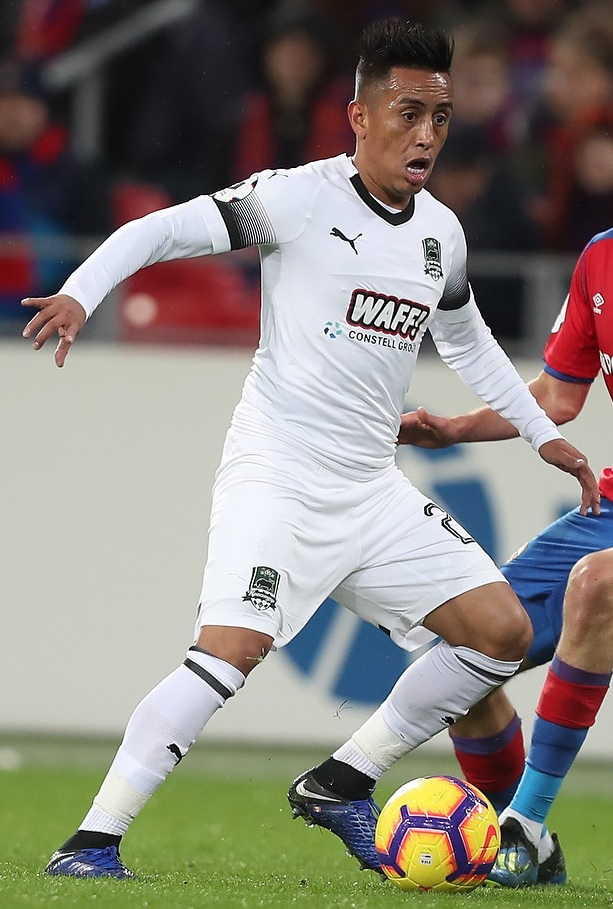 Christian Cueva with FC Krasnodar in a game against PFC CSKA Moscow.